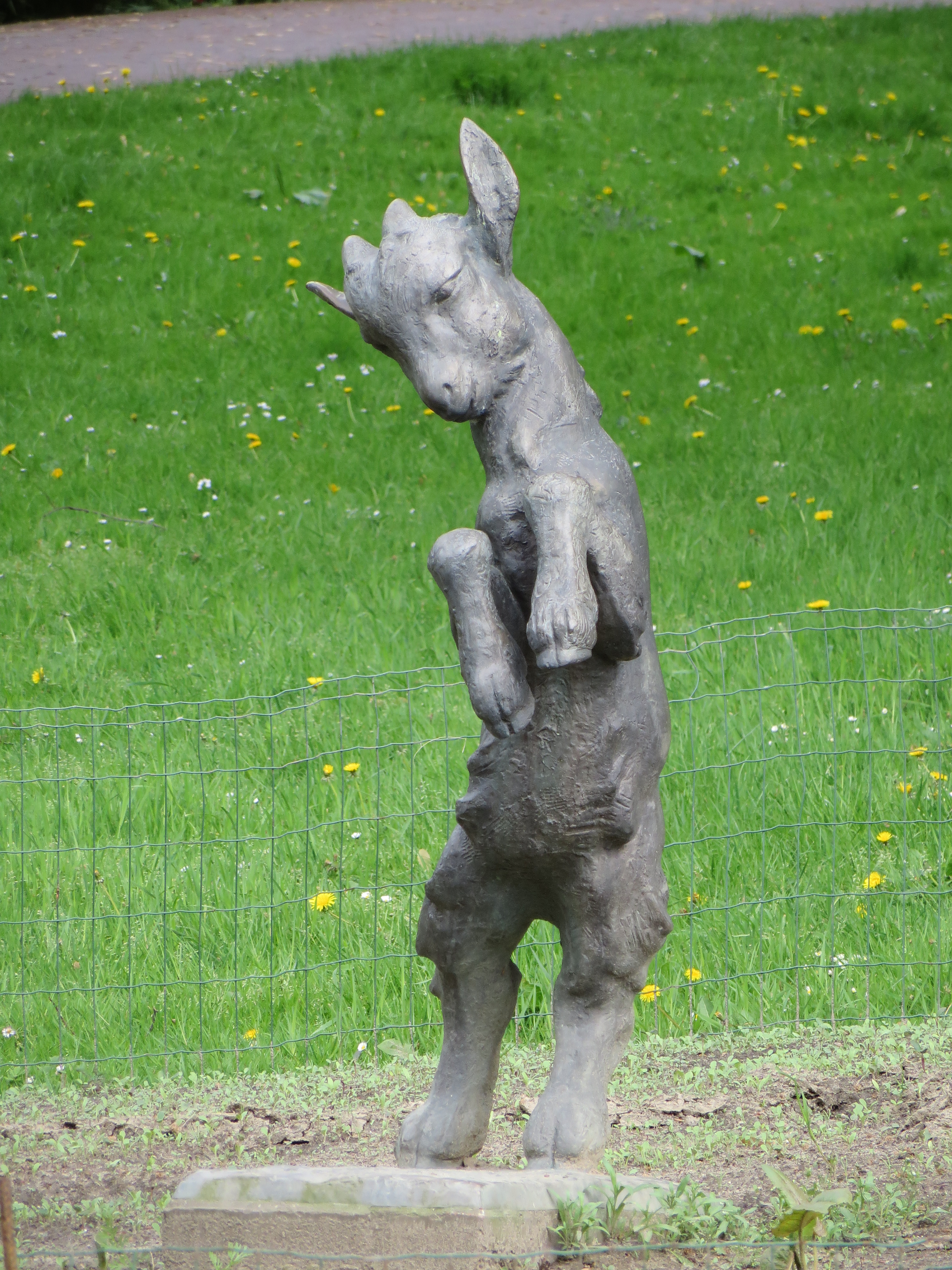 Statue of a young goat by Clemens Pasch from 1959 in Stadtpark Witten, GermanyEsperanto: Statuo de juna kapro de Clemens Pasch de 1959 en Stadtpark Witten, Germanio